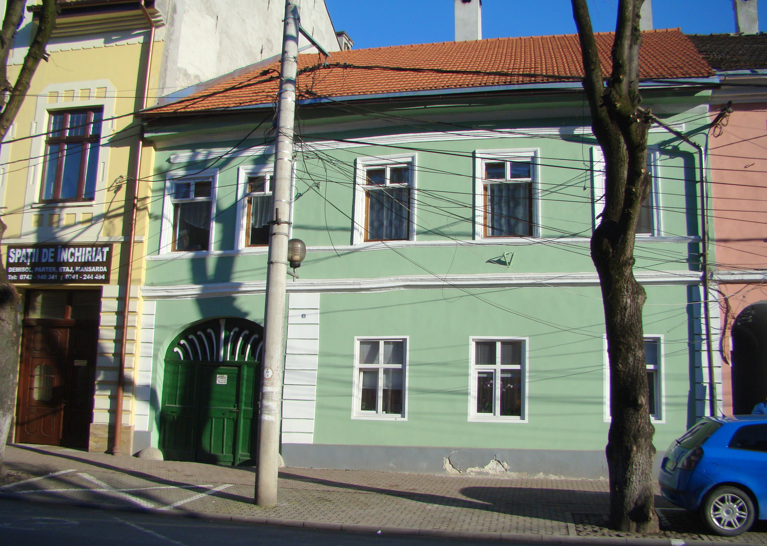 House, historic monument, in Bistriţa, Dornei street, number 6